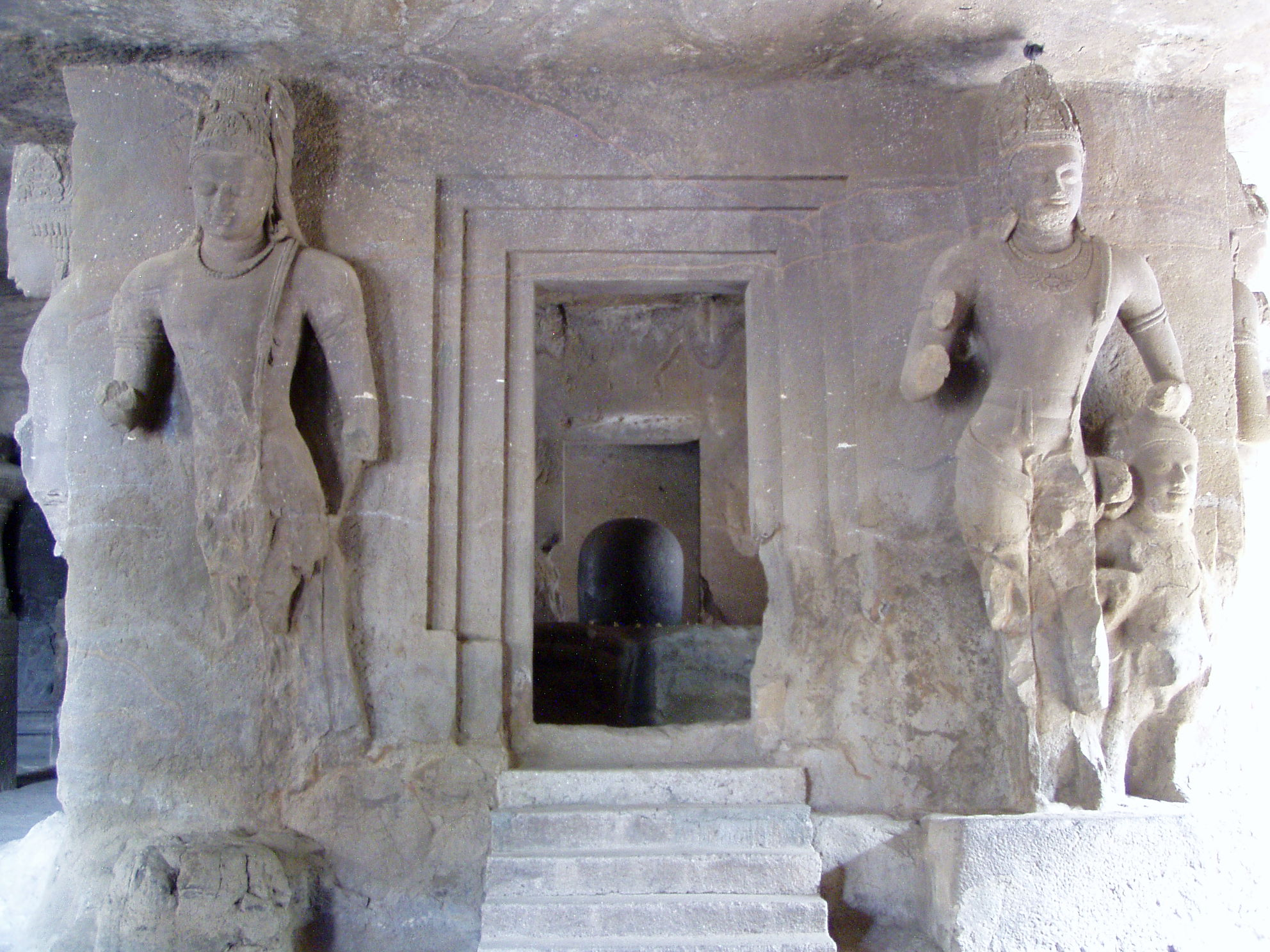 One of the many lingam shrines in Elephanta caves complex. This one is located in the main hall of cave number 1.